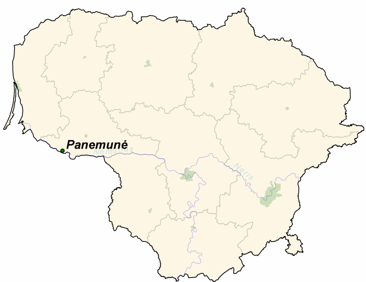 Panemunė on the map of Lithuania